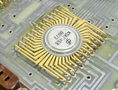 USSR made integrated circuit K1ZhG453, 1977-made.